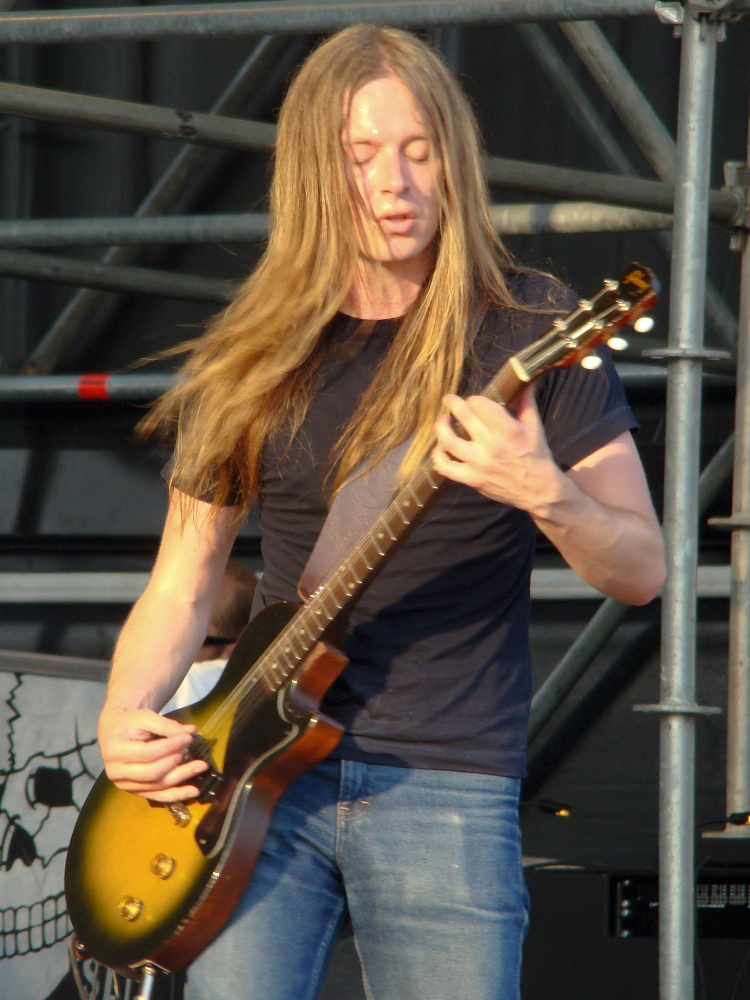 Bill Steer performing with Carcass at Gods of Metal festival in Bologna, Italy.